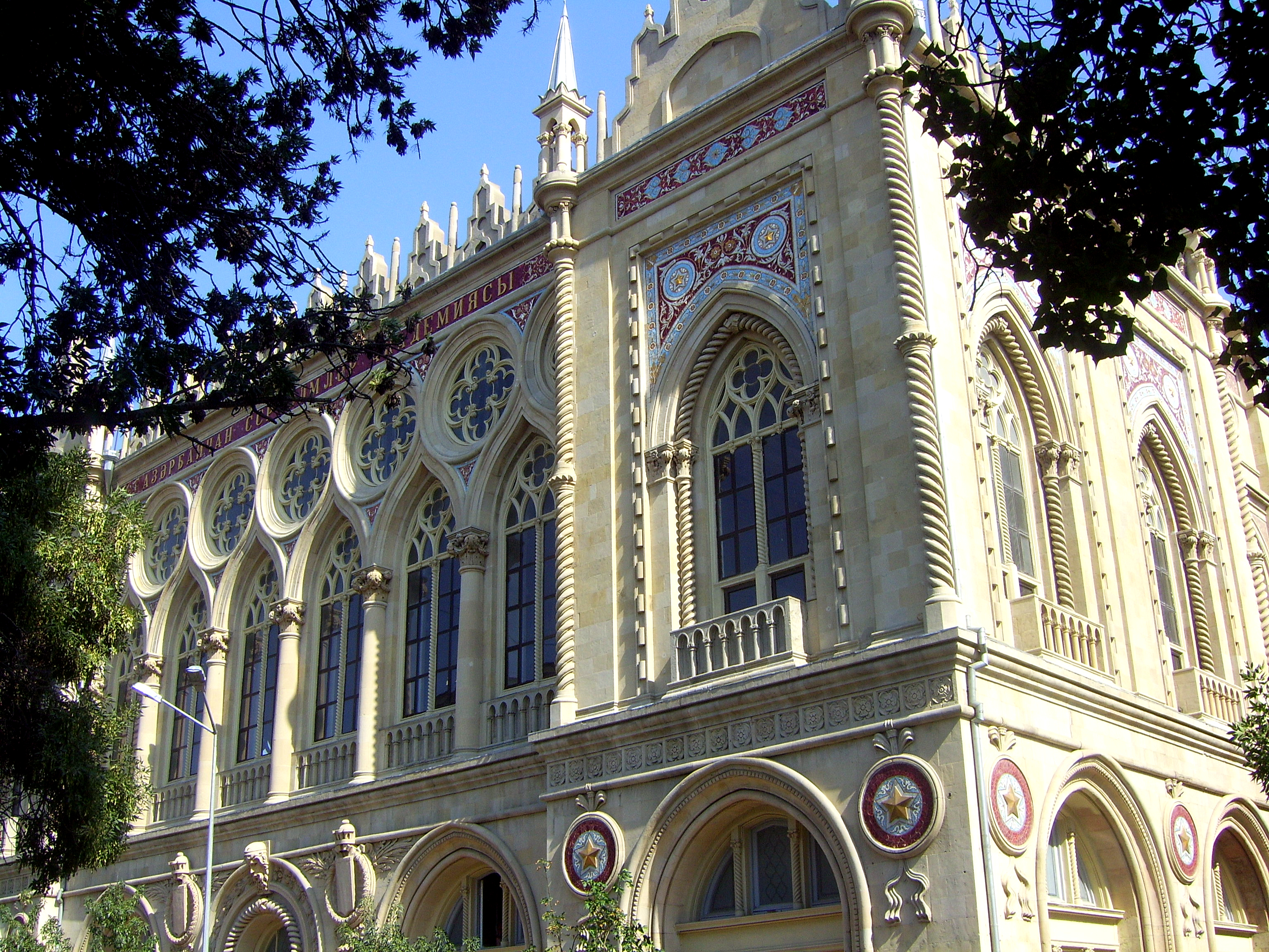 Ismaily building of scientific research in Baku